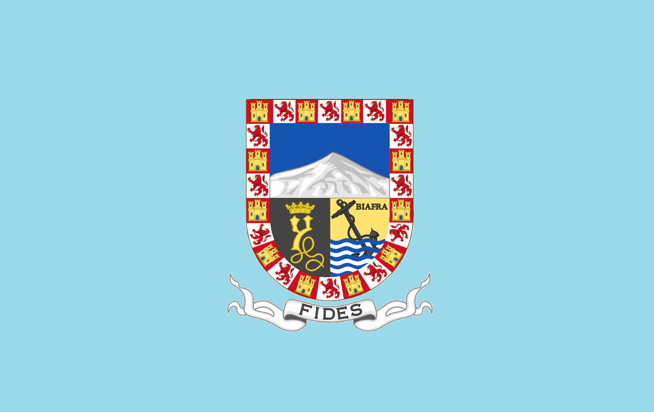 Former flag of the Santa Isabella City, in the Spanish Guinea (nowadays Malabo).